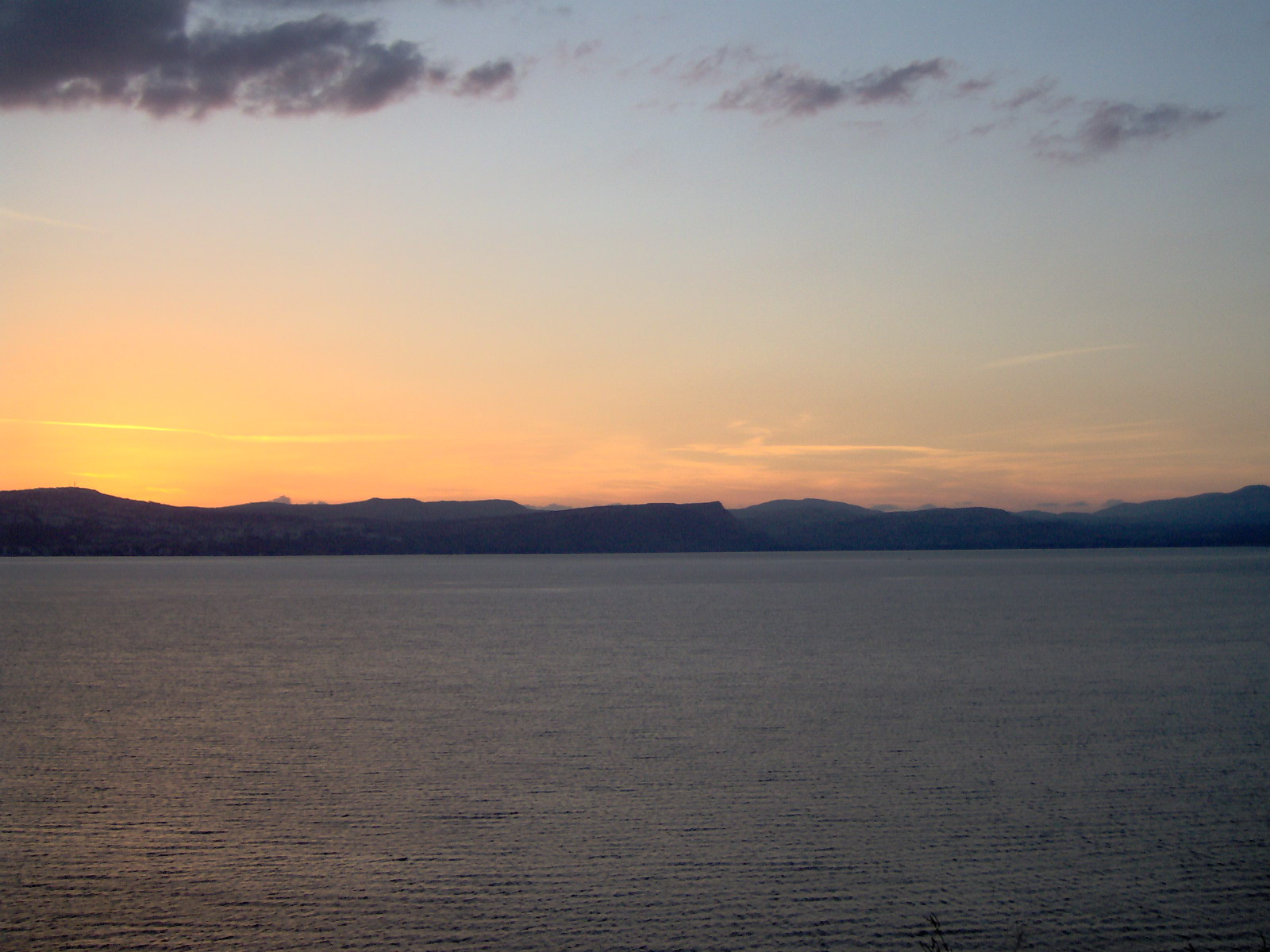 Israel's kineret (sea of Galilee) and sunset.